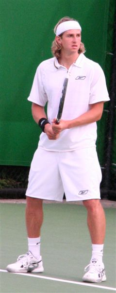 Igor Andreev - 2007 Australian Open